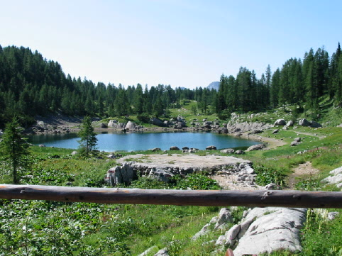 Dvojno jezero (Double Lake), Triglav Lakes Valley, Slovenia. Photograph has been taken from the Triglav Lakes Hut.